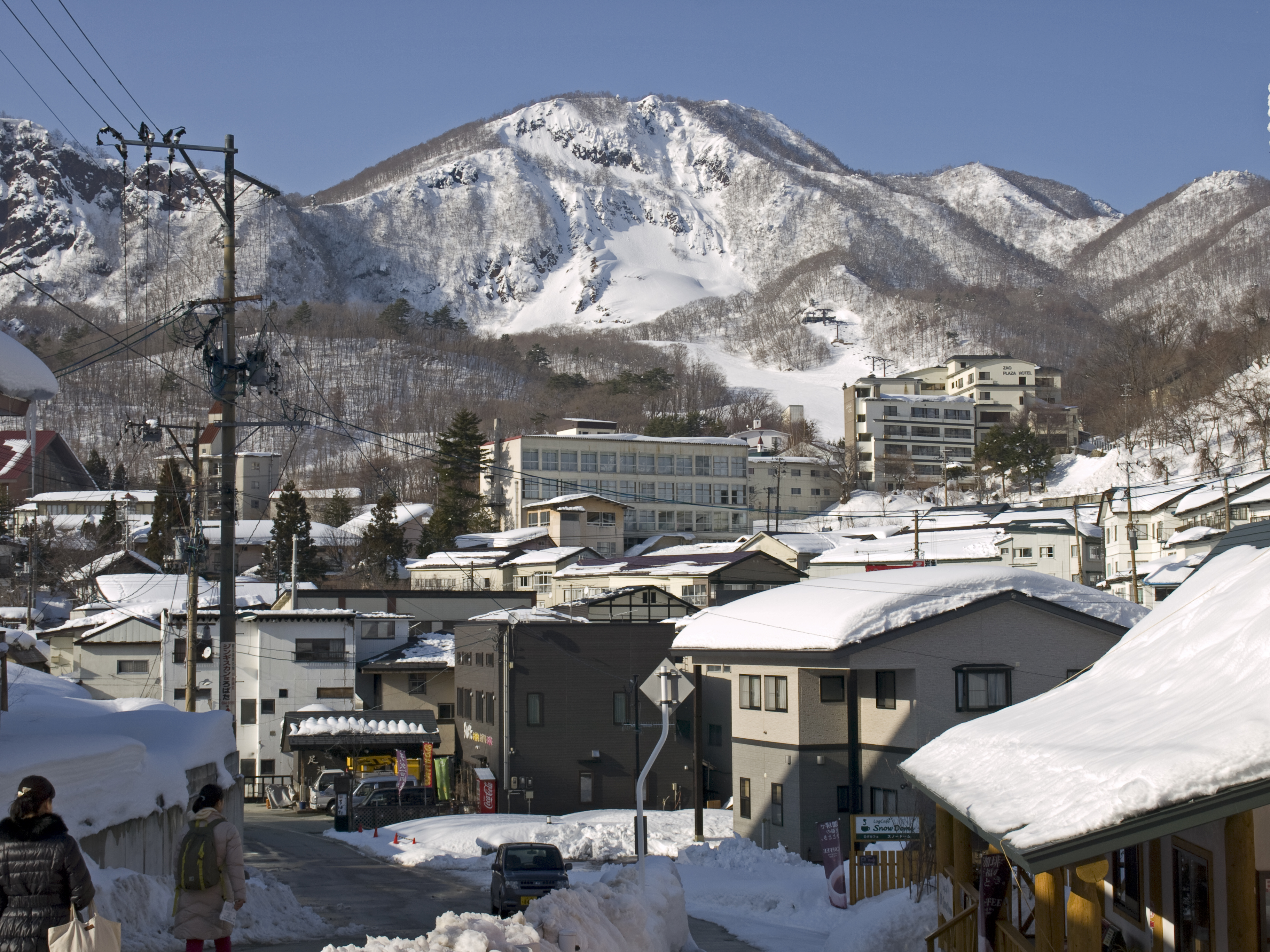 Panorama of Zao Onsen